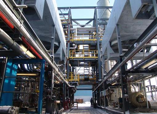 Dynamotive Energy Systems Corporation Plant in Guelph, Ontario